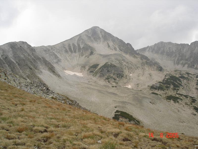 "Polezhan" - a summit in Pirin mountain in Bulgaria View from Sinanitsa summit.